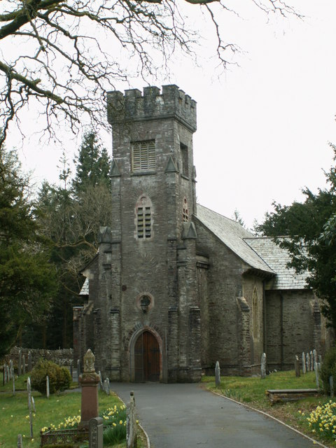 Hafod Church Pic taken from the side of the B4574 to Cwmystwyth.